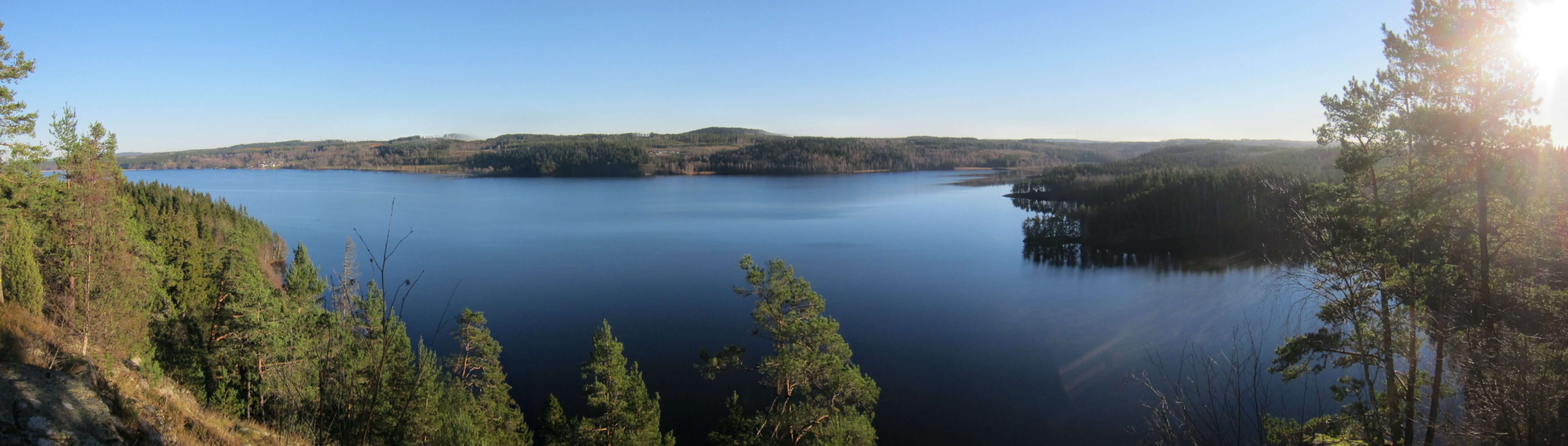 Panoramic view of Tenhultasjön from nature reserve Uvaberget